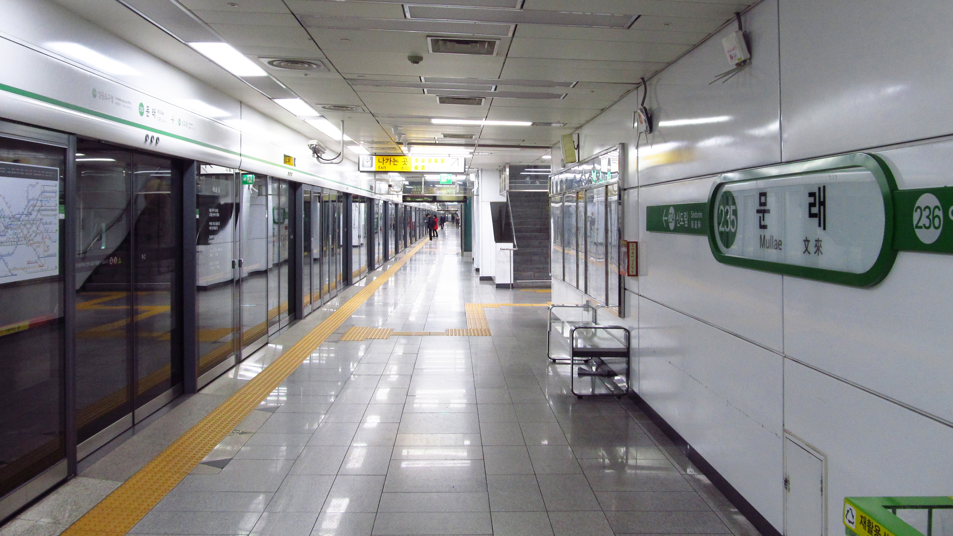 The platform at Mullae Station on Seoul Subway Line 2 in Yeongdeungpo-gu, Seoul, Republic of Korea(South Korea)